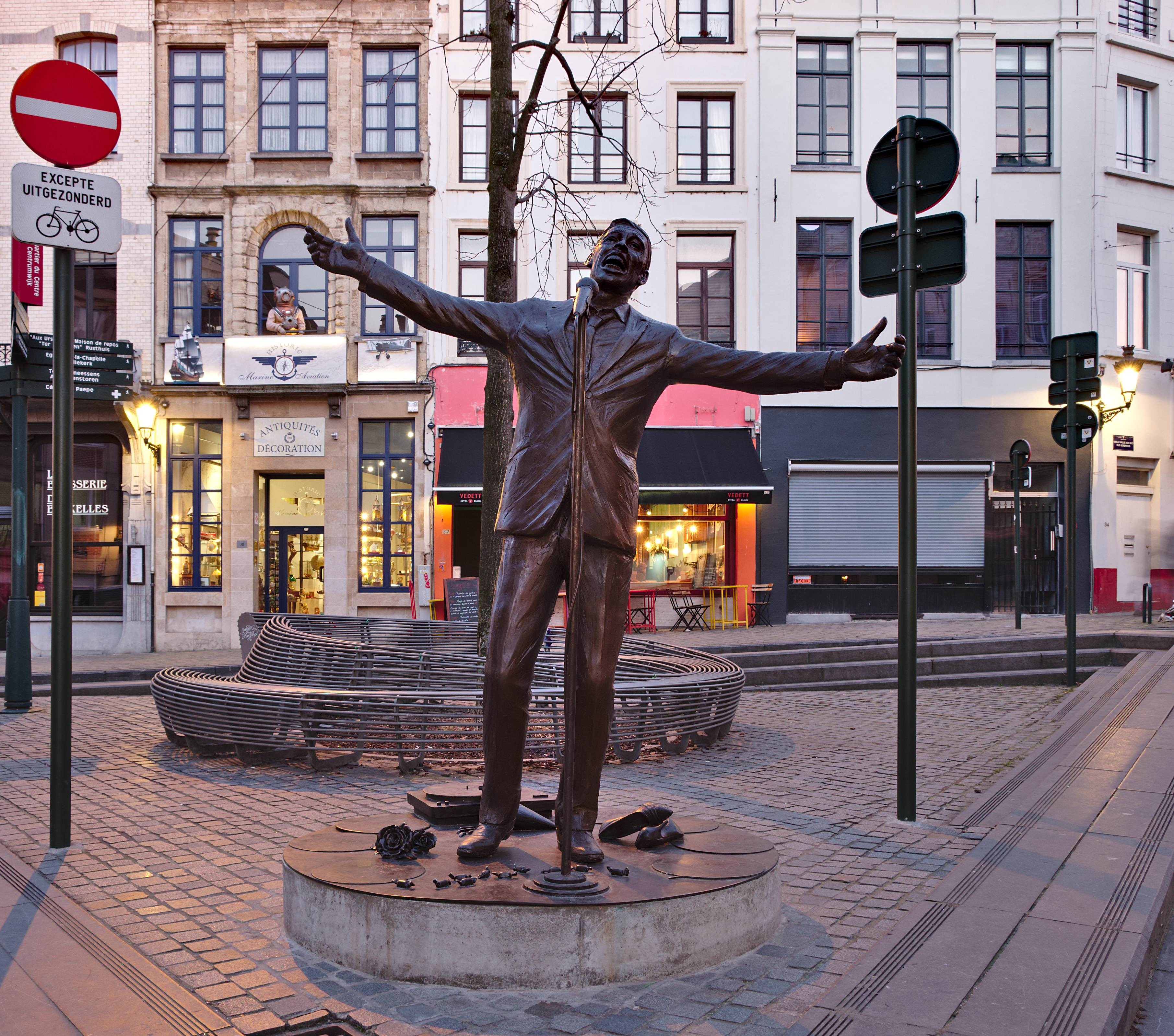 Jacques Brel memorial bronze statue by Tom Frantzen on place de la Vieille Halle aux Blés during the evening civil twilight in Brussels, Belgium